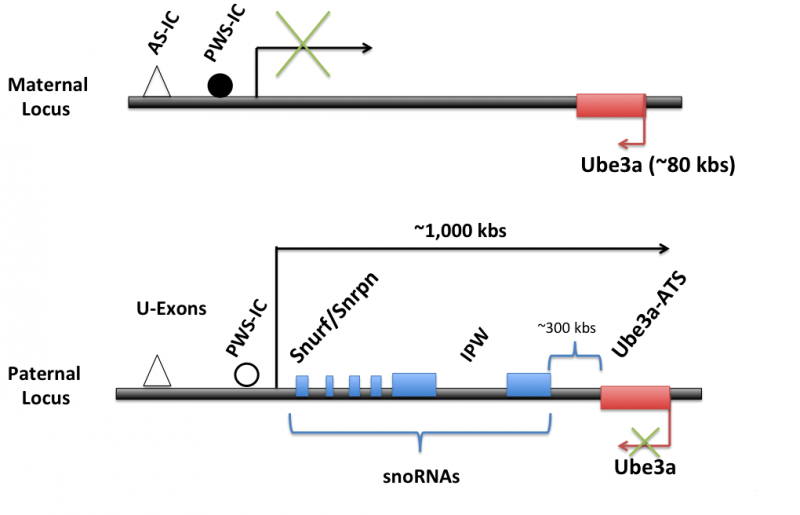 Paternal and maternal Ube3a locus organization.